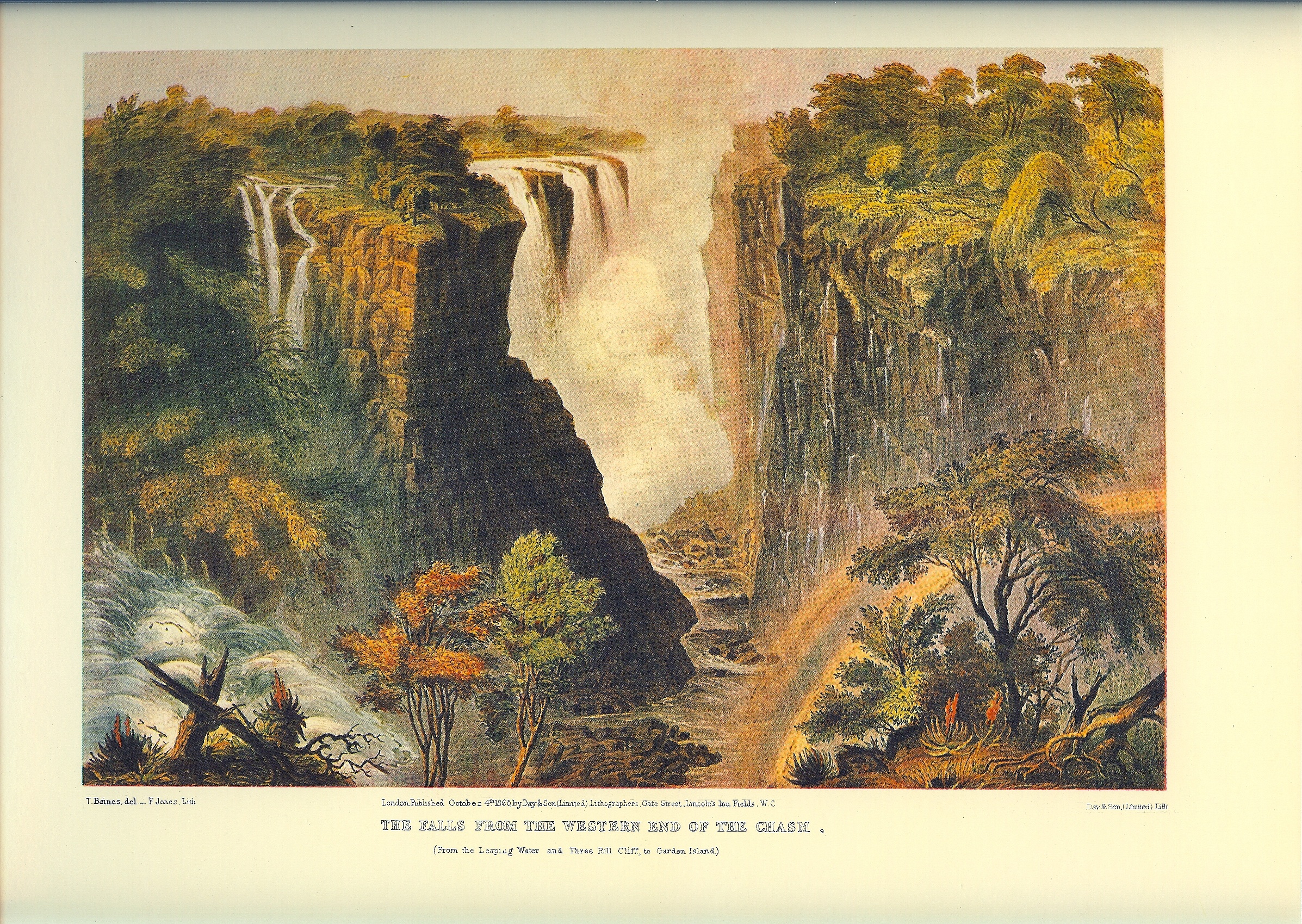 Title: "THE FALLS FROM THE WESTERN END OF THE CHASM, (From the Leaping Water and Three Rill Cliff, to Garden Island.)" Additional text: "T. Baines del_F. Jones, Lith. London Published October 4th. 1865 by Day & Son, (Limited) Lithographers Gate Street, Lincoln's Inn Fields. WC. Day & Son, (Limited) Lith." Content: Victoria Falls with rainbow, cliffs, trees and (probably) aloes.